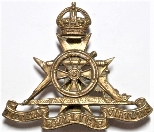 Capadge in brass, 1902-1952